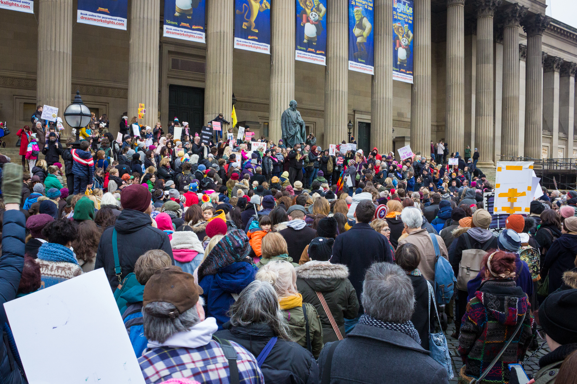 Crowds listen to speakers at Women's March in Liverpool, UK.